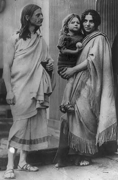 American poet, philosopher, and dancer Raymond Duncan (1874-1966) with his wife, Penelope Sikelianos, and their son, Menalkas. Raymond Duncan was the brother of Isadora Duncan (1877–1927).